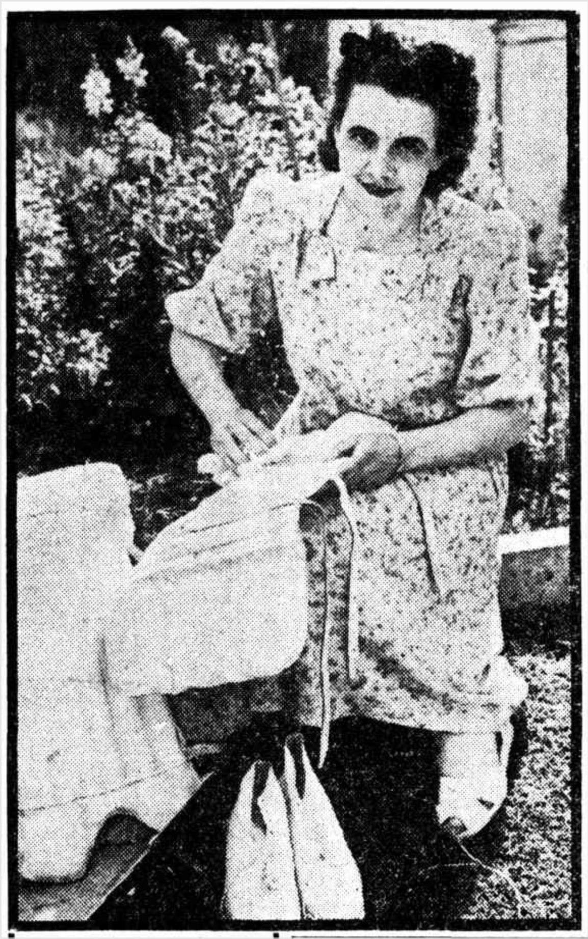 Victorian cricketer Lorna Larter (24), who played for the combined Australian team in today's match against England, puts the finishing touches of white cleaner on her wicket-keeping pads and boots.